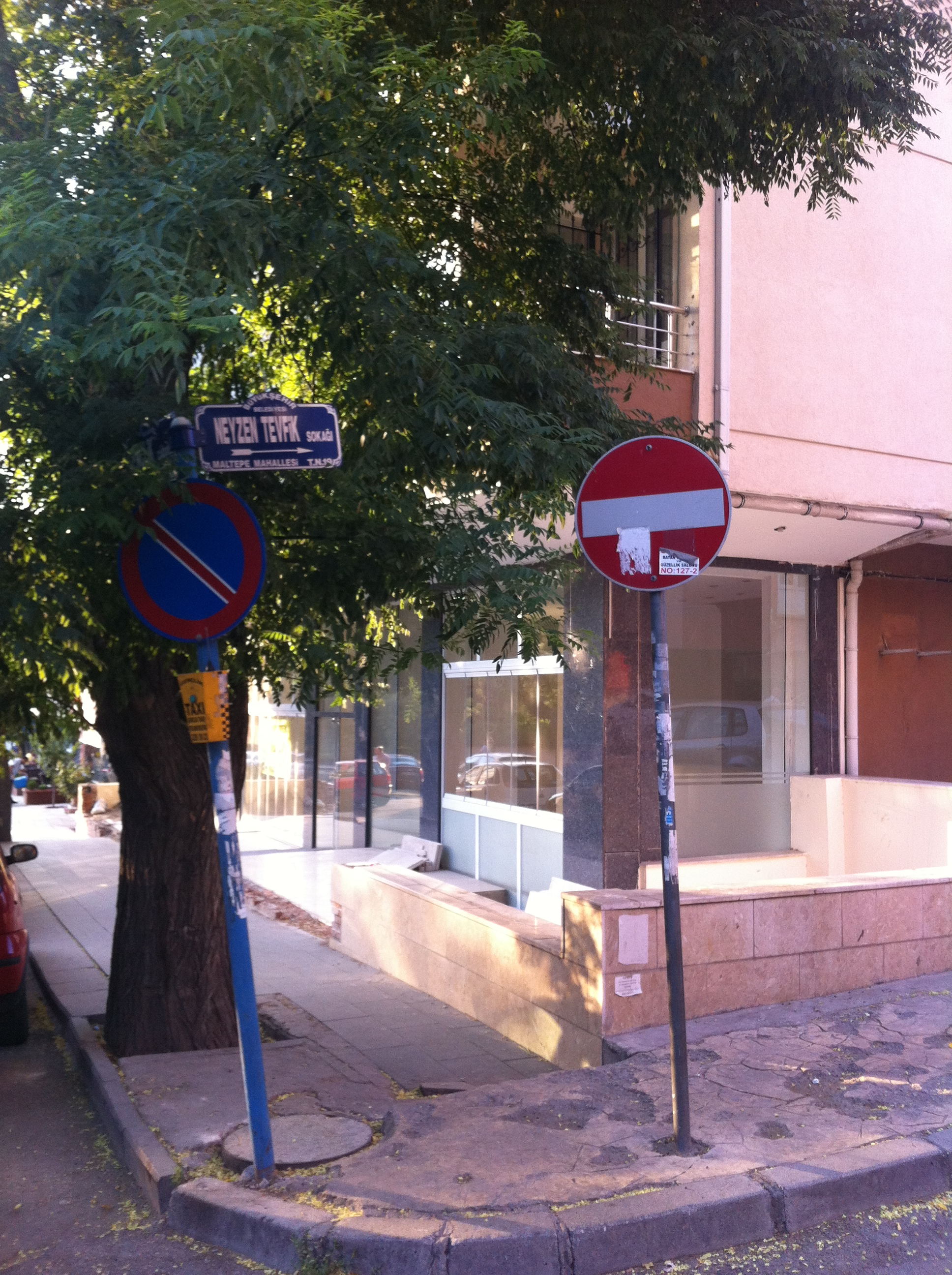 The plate in Ankara, which indicates the street name, named after Neyzen Tevfik.